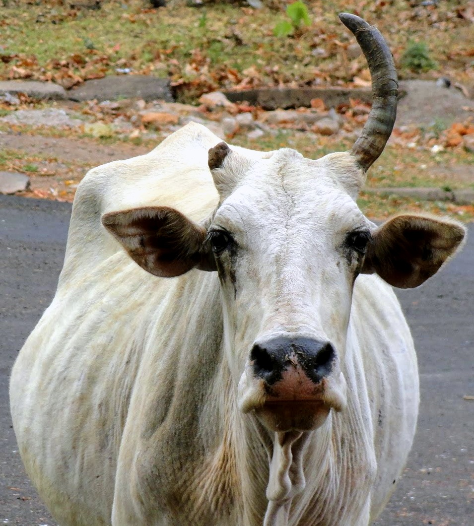 This pictures shows a cow who has been injured in an accident.